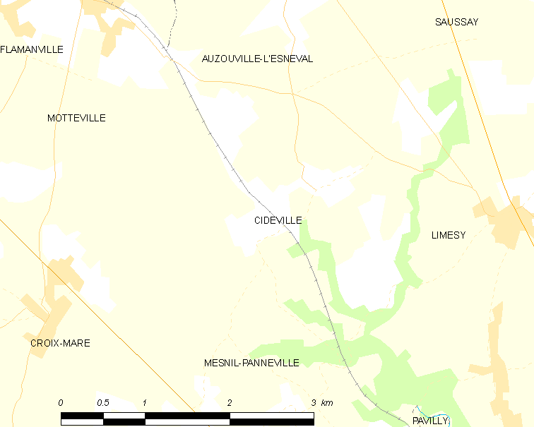 Map of French municipality Cideville